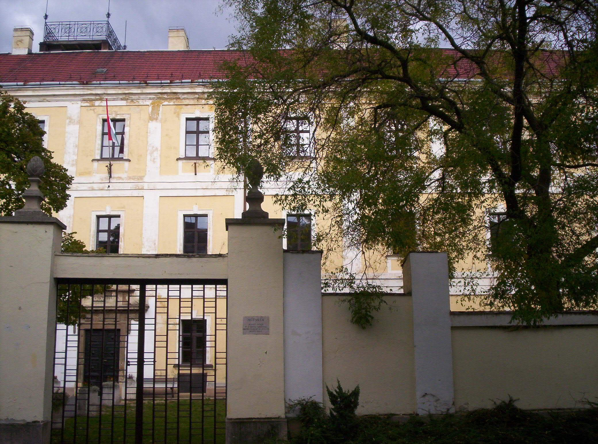 Secondary Business School of Veszprém